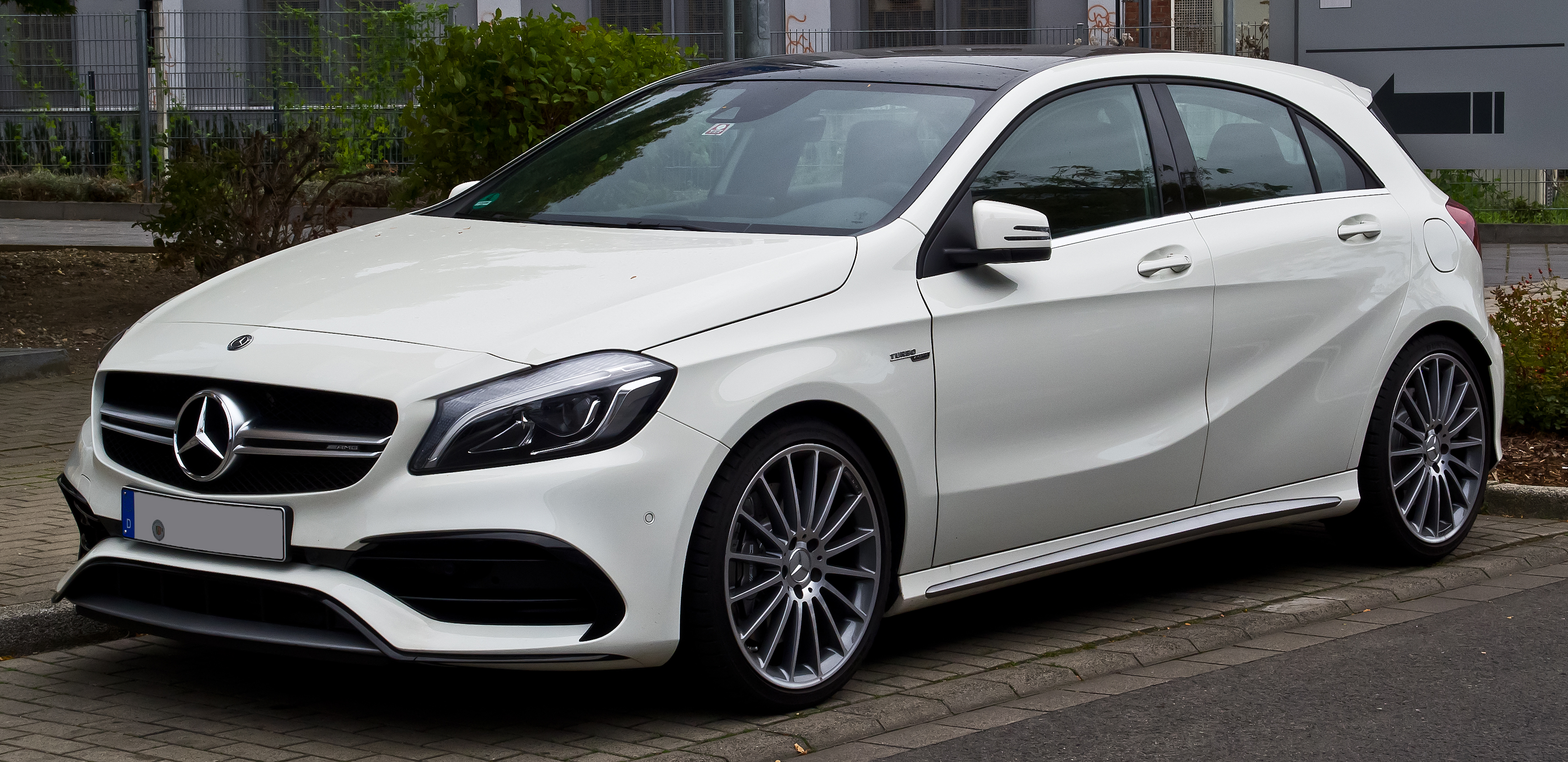 Mercedes-AMG A 45 4MATIC (W 176, Facelift)